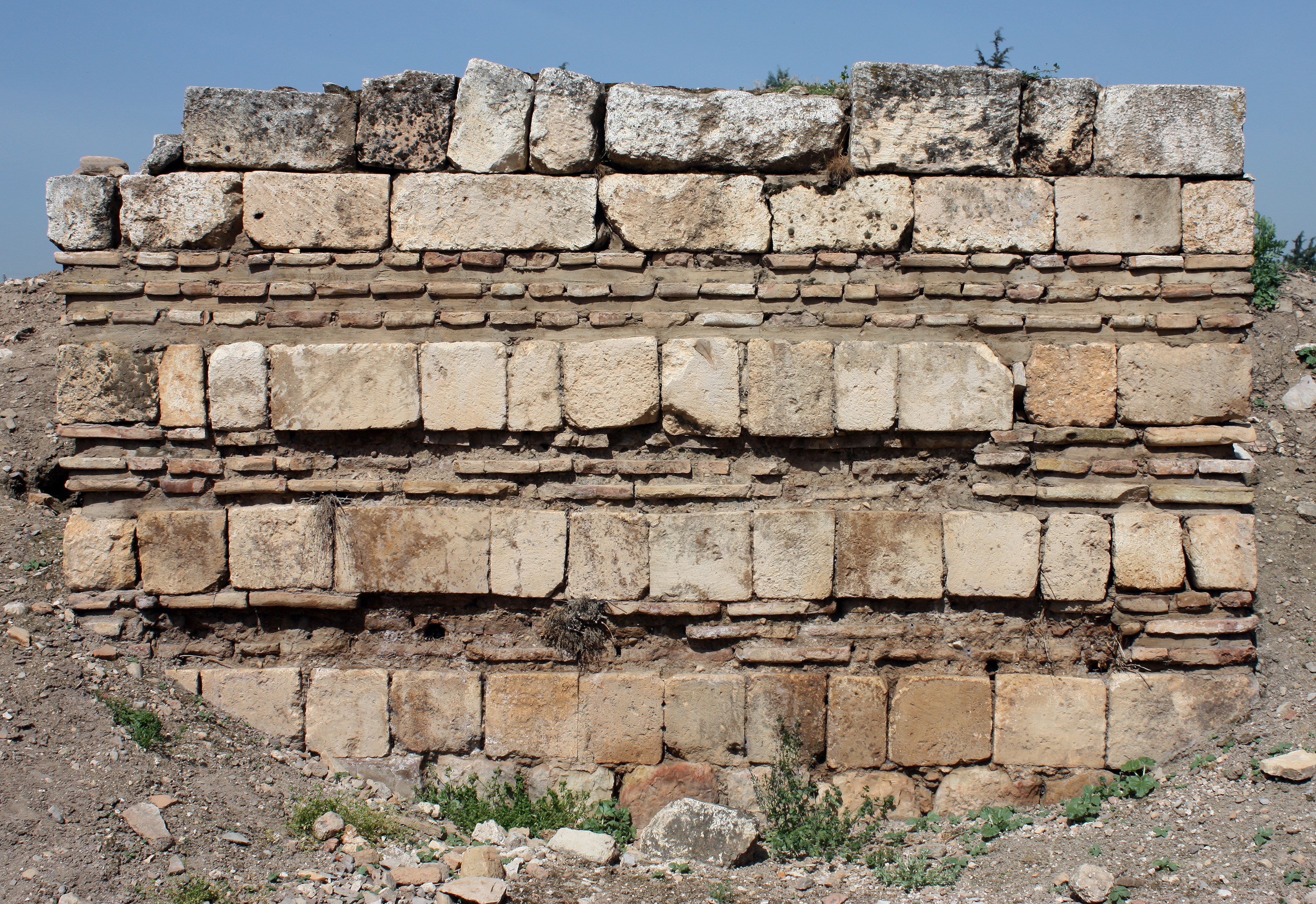 Typical wall structure of the Umayyad city of Anjar, Lebanon.